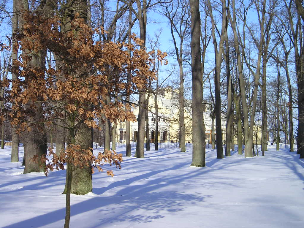 Alexandria park and Cottage